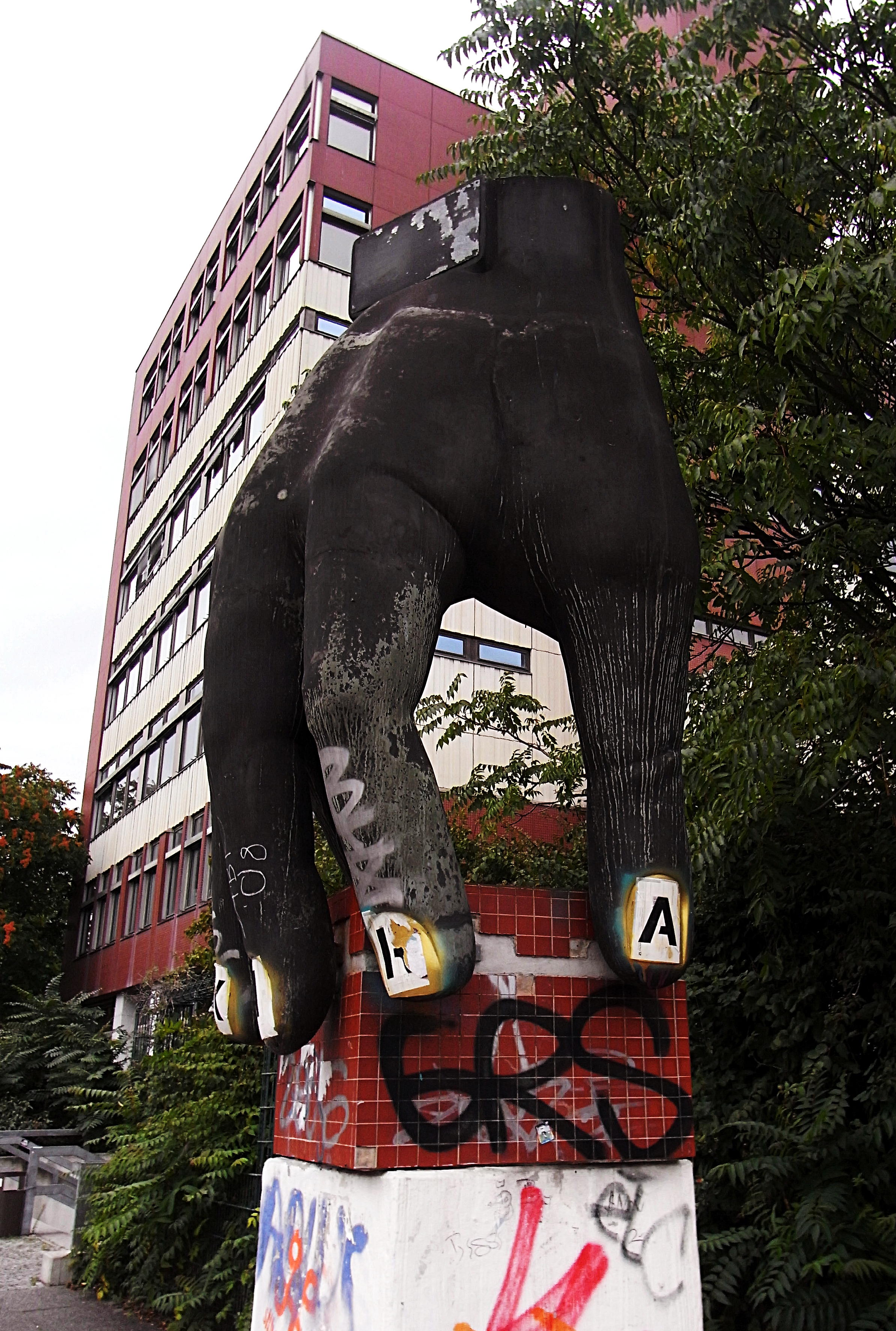 Joachim Schmettau, Hand with watch (1975), nickel silver on a base with brick mosaic, on a base from fair faced concrete - D-10555 Berlin-Hansaviertel, Altonaer Straße 25, intersection with Lessingstraße, in front of Menzel-Highschool - 2nd version of this image.- Originally the dial of the wrist watch was painted in white with a black frame